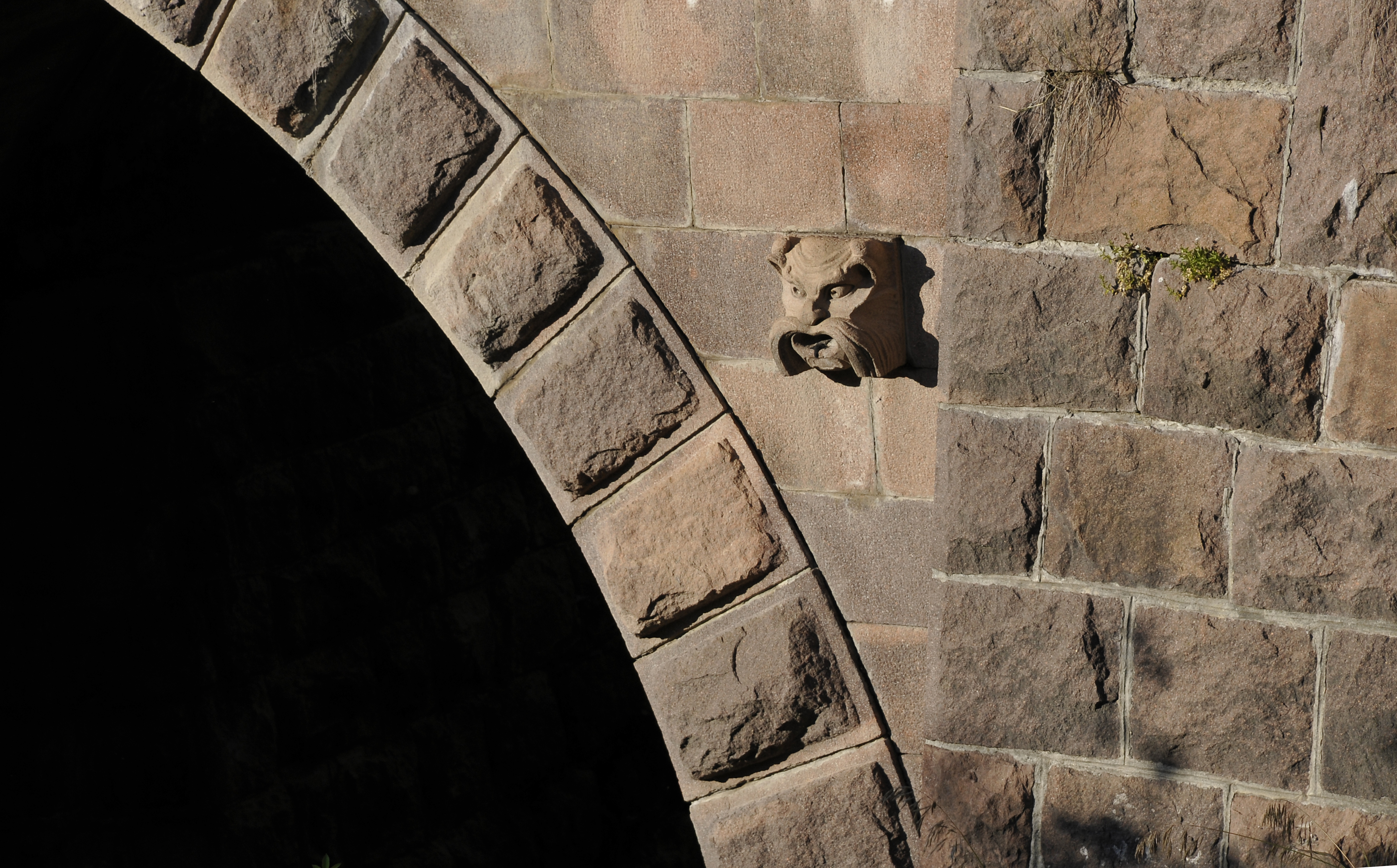 Typhon on bridge made of porphyrstone in St. Ulrich in Gröden - Ortisei, build around 1856